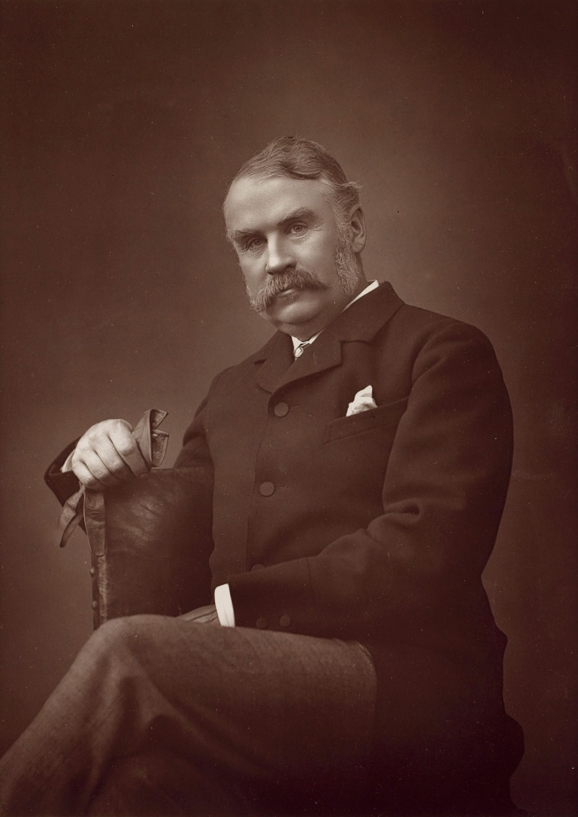 Portrait of Sir William Schwenck Gilbert (1836-1911), English opera librettist